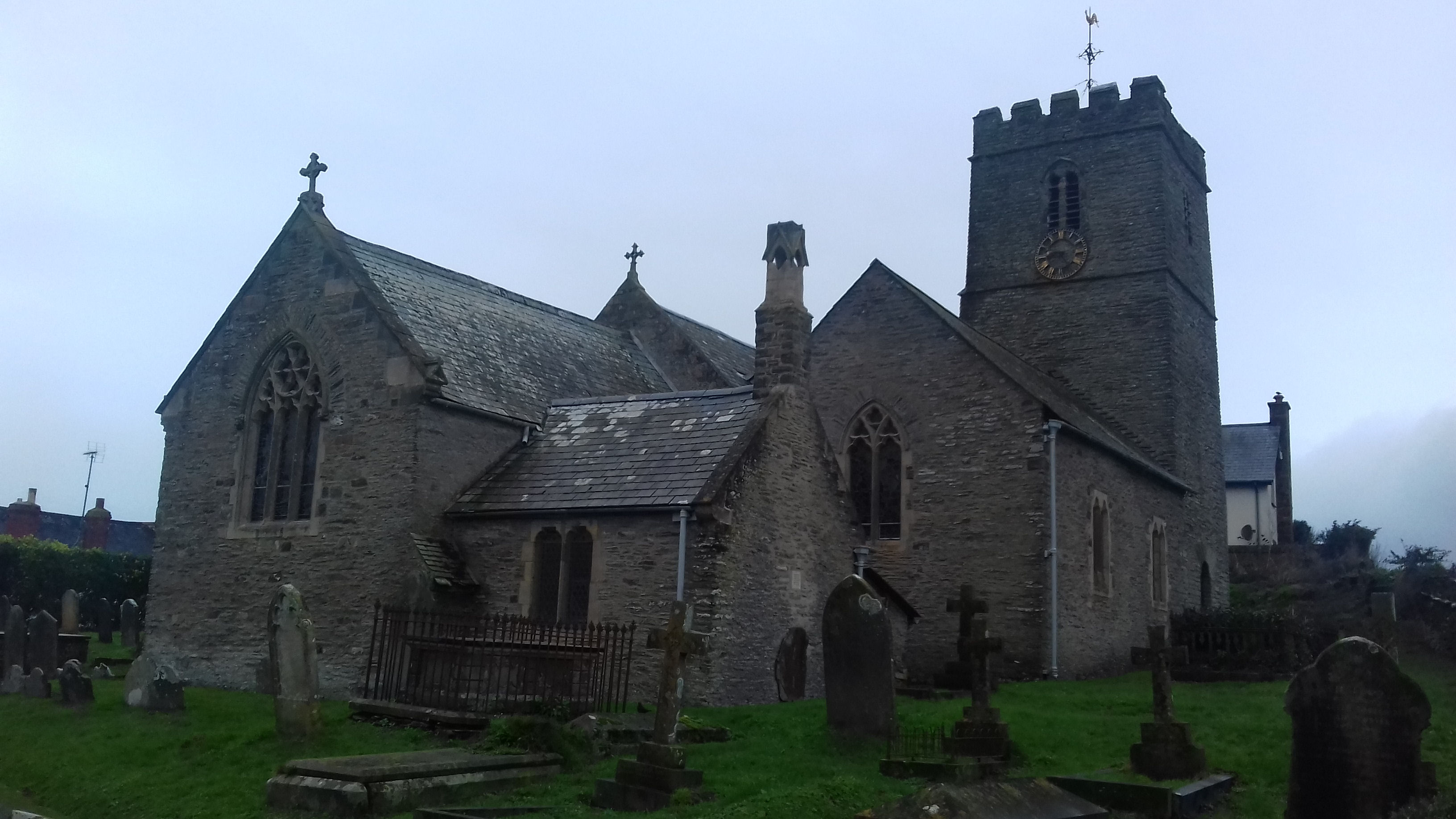 Church of St Mary the Virgin in Mortehoe in Devon